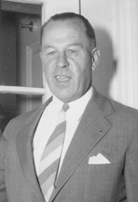 Portrait of Dwight P. Griswold (1893–1954), a U.S. Senator from Nebraska.